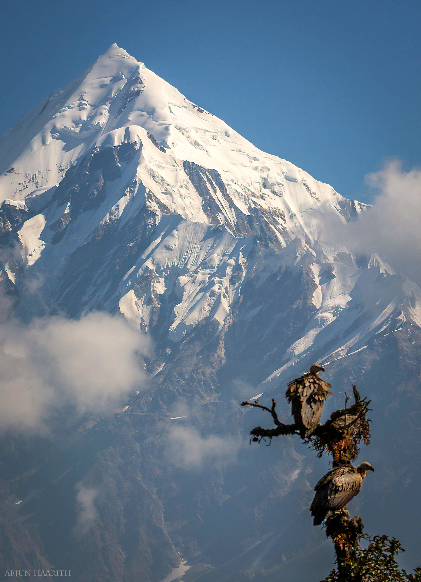 This was shot at Munsiari , a remote village in the state of Uttarakhand (India) The panchachuli peak - 2 can be seen in the background